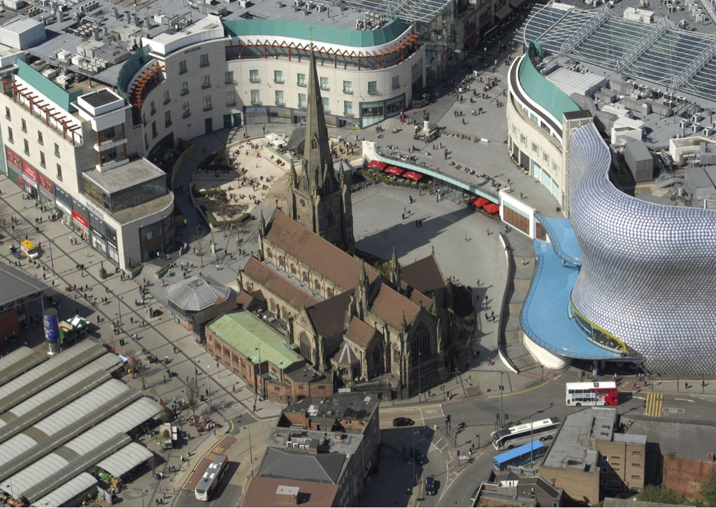 Bull Ring, Birmingham, England, featuring St Martin's church (centre) and the silver Selfridges store. Photo taken by the West Midlands Police helicopter during routine operations.